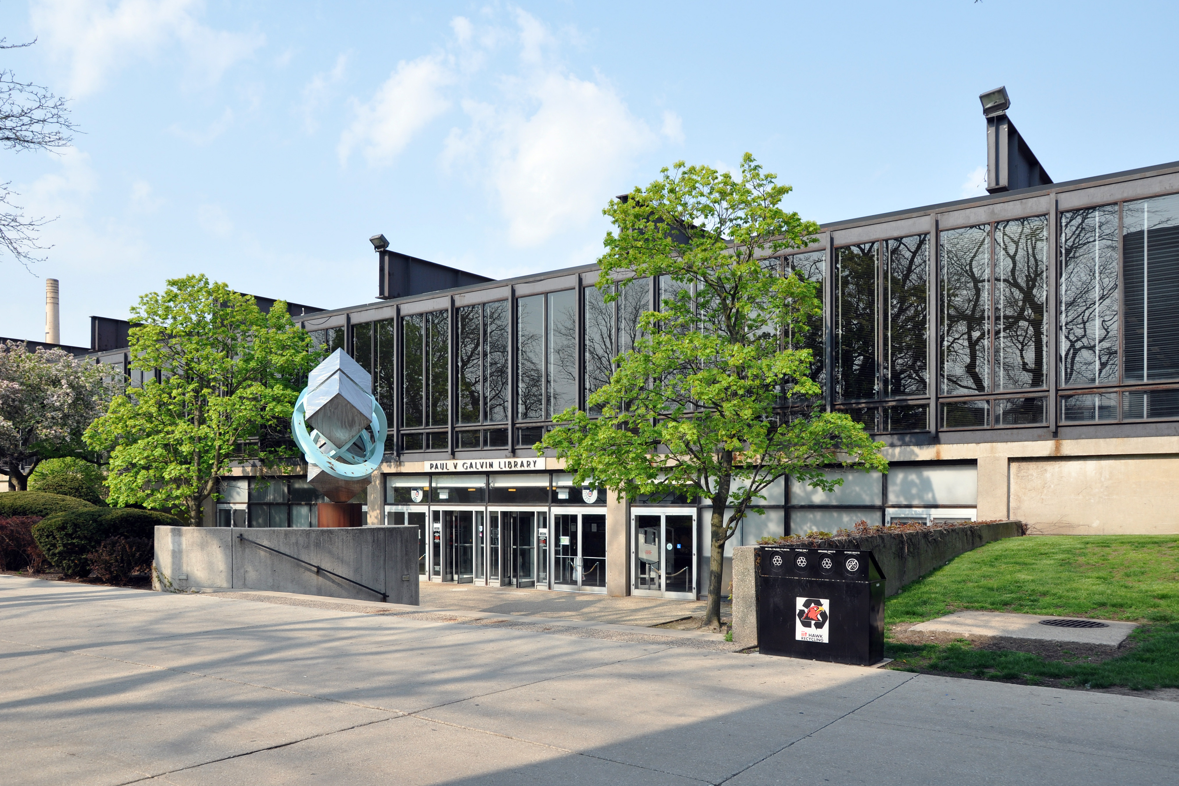 Paul V. Galvin Library at Illinois Institute of Technology in Chicago, USA.